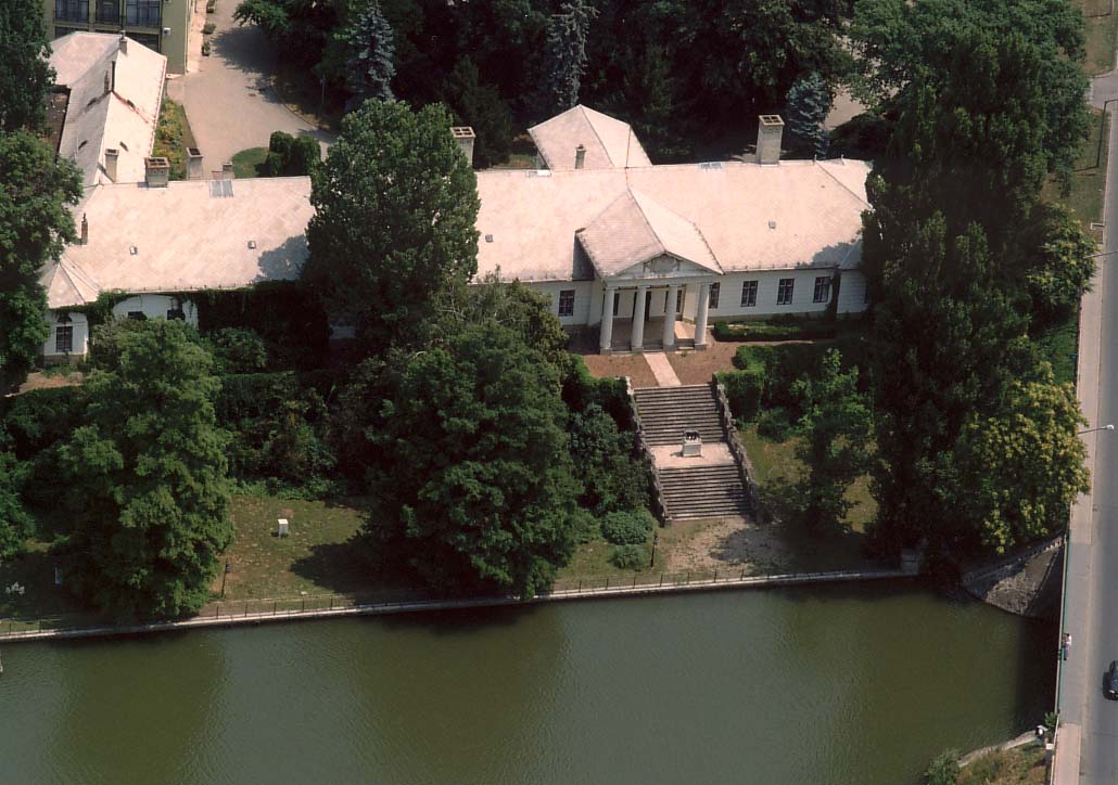 Palace - Szarvas - Hungary - Europe